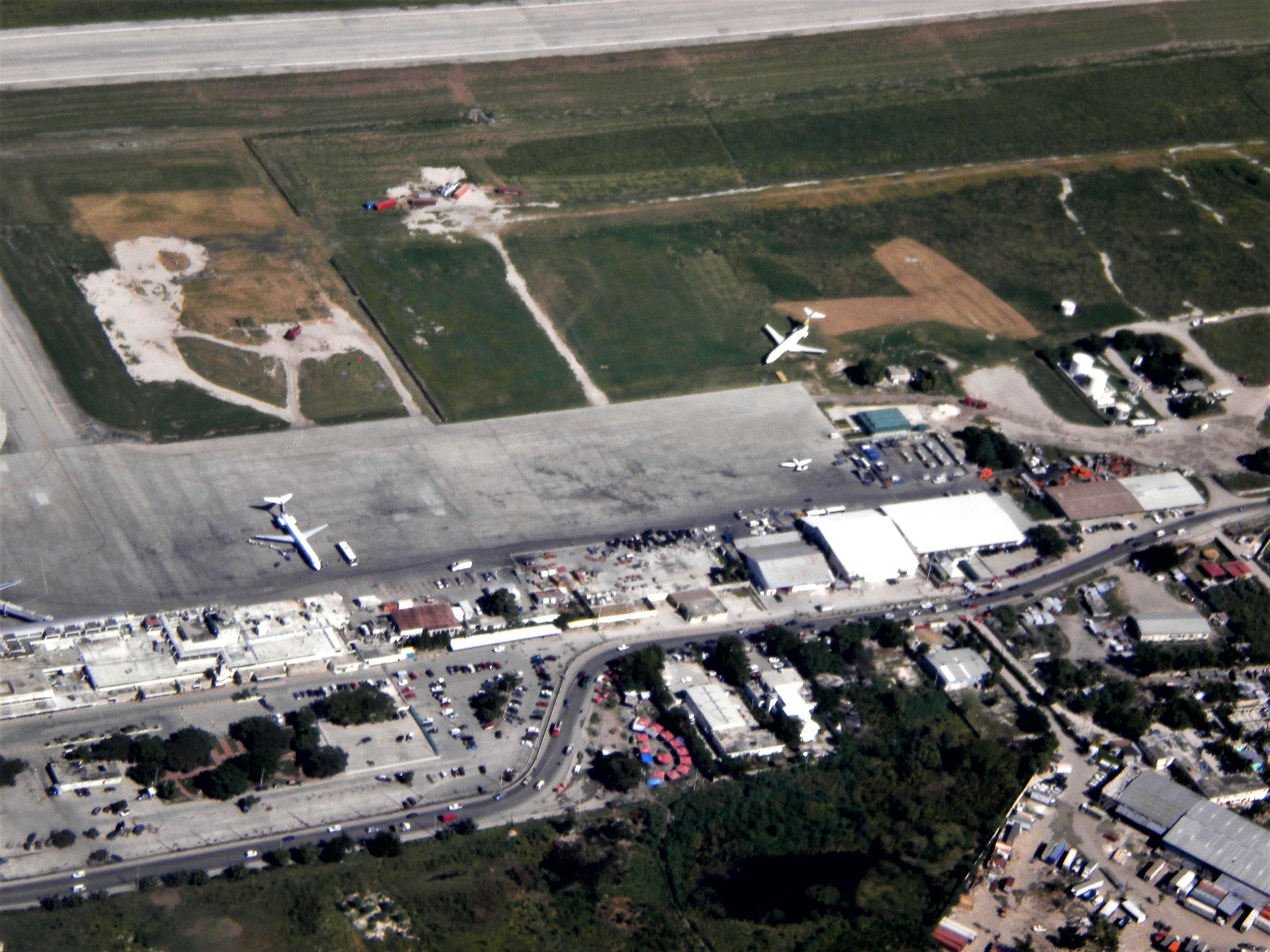 Port-au-prince International Airport terminal aerial view